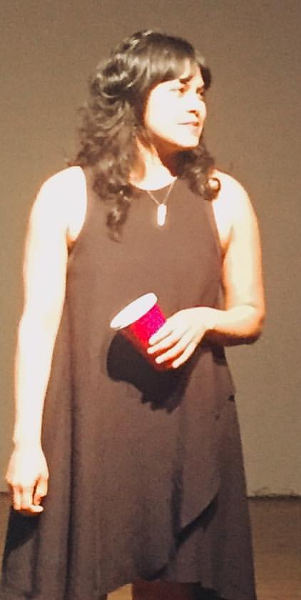 Left to right: Performance artist Xandra Ibarra, cultural anthropologist Adrian Van Allen, cognitive scientist Lera Boroditsky